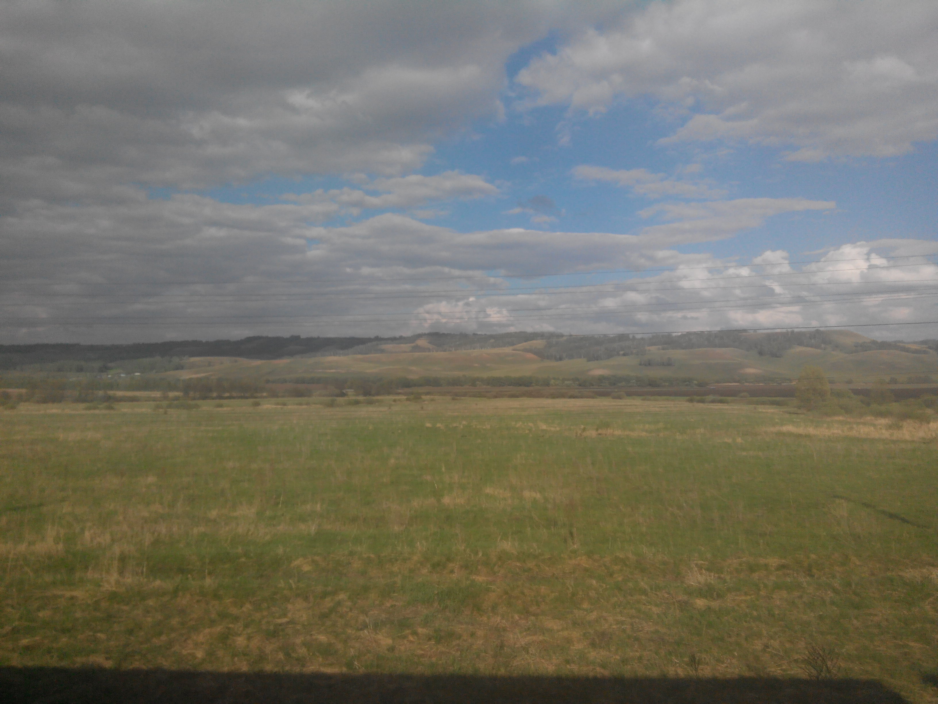 Bugulma-Belebey Upland